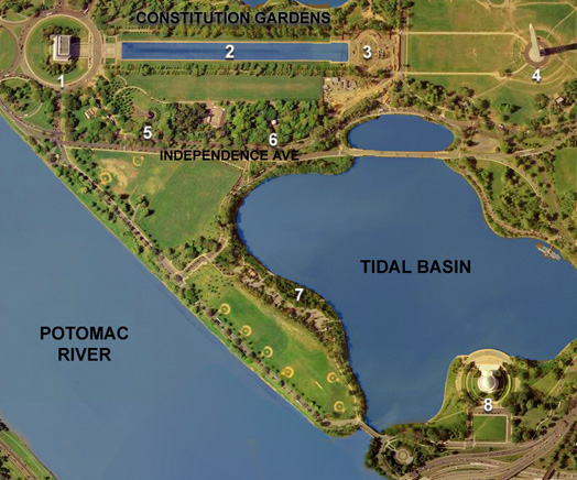 Color-modified satellite image of West Potomac Park in Washington, D.C. Key to image: Lincoln Memorial Reflecting Pool National World War II Memorial (now complete; still under construction at time of image) Washington Monument (the grounds of which are not part of West Potomac Park) Korean War Veterans Memorial District of Columbia War Memorial Franklin Delano Roosevelt Memorial Jefferson Memorial